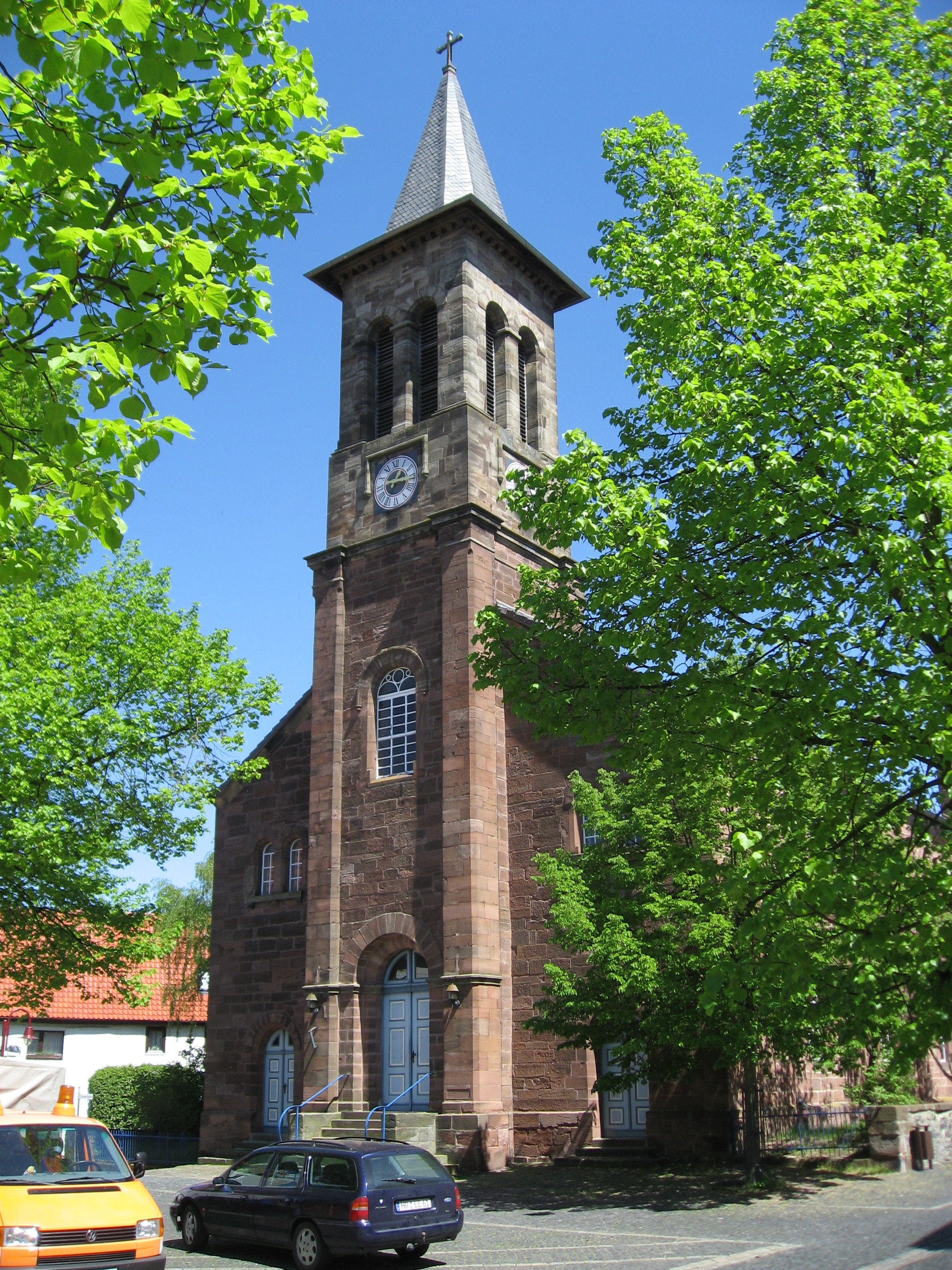 City church of Borken